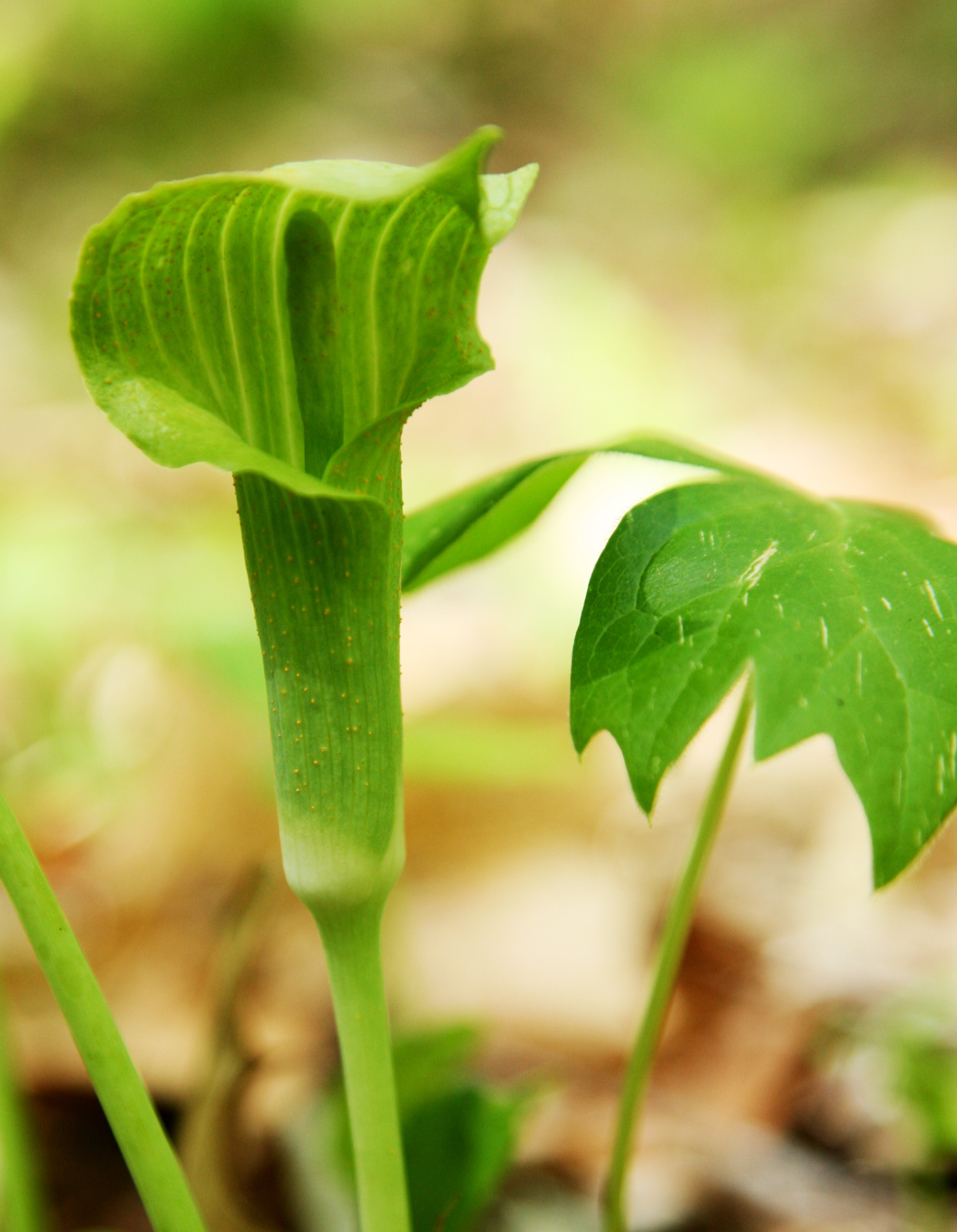 Jack-in-the-Pulpit (Arisaema triphyllum) in Turkey Run State Park, Indiana